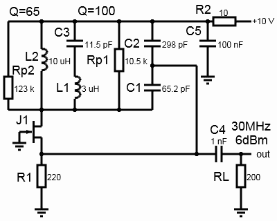 Clapp oscillator in JFET gate configuration